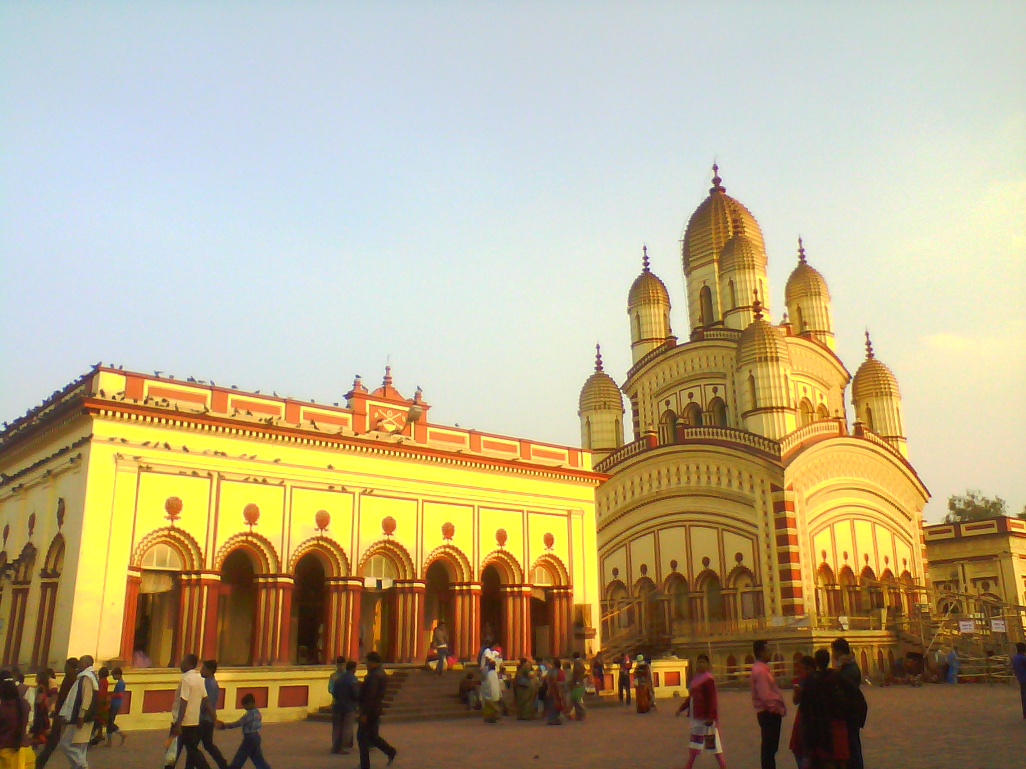 Dakhineswar temple, Bally, West Bengal, India